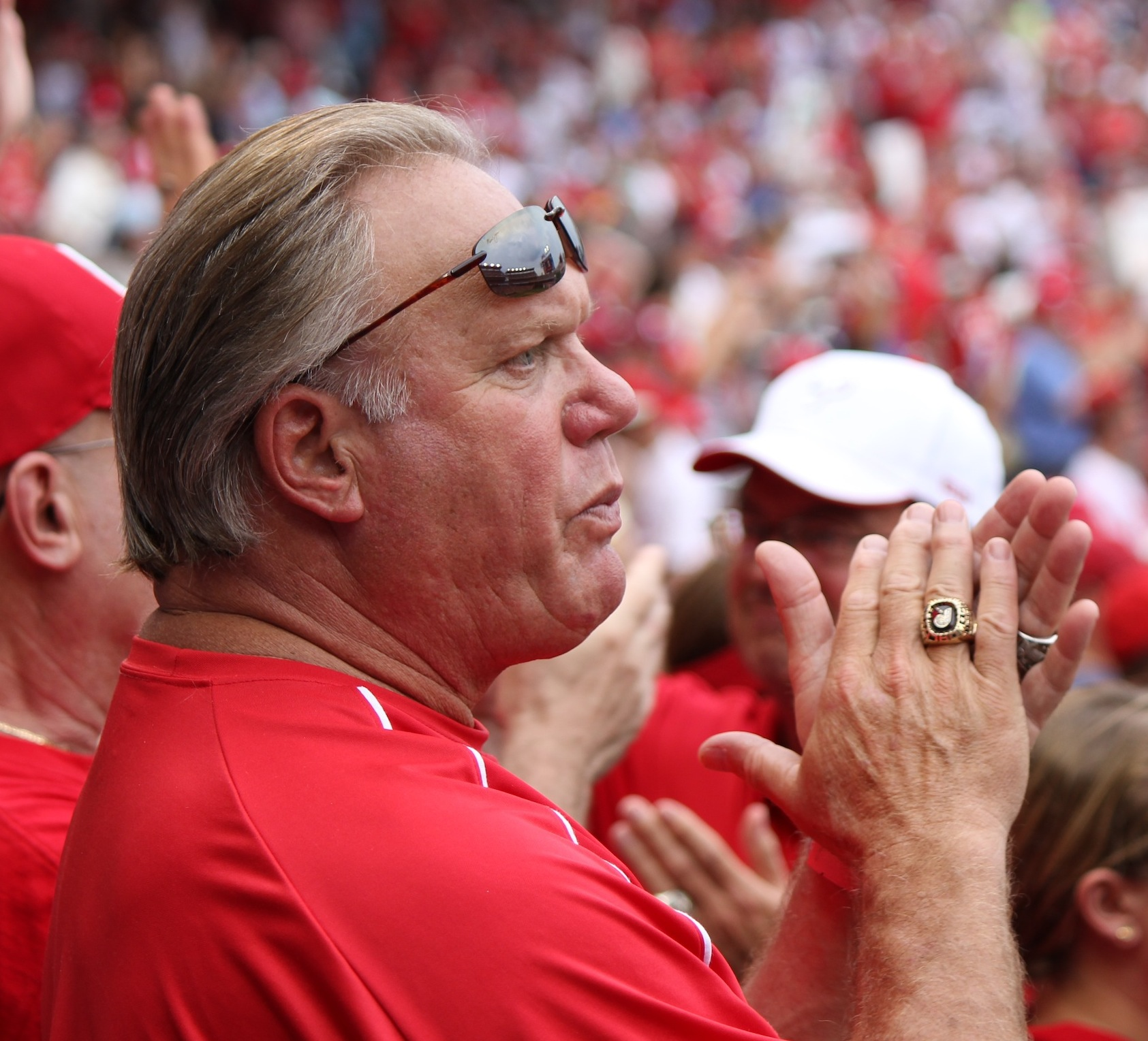 Baseball Legend Greg Luzinski at a Washington Nationals/Philadelphia Phillies game at Nationals Stadium on August 21, 2011